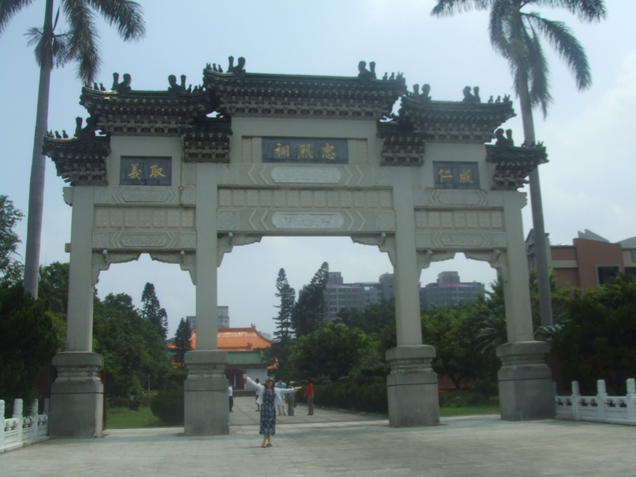 Taiwanese Martyrs' Shrine in Taichung (台中)